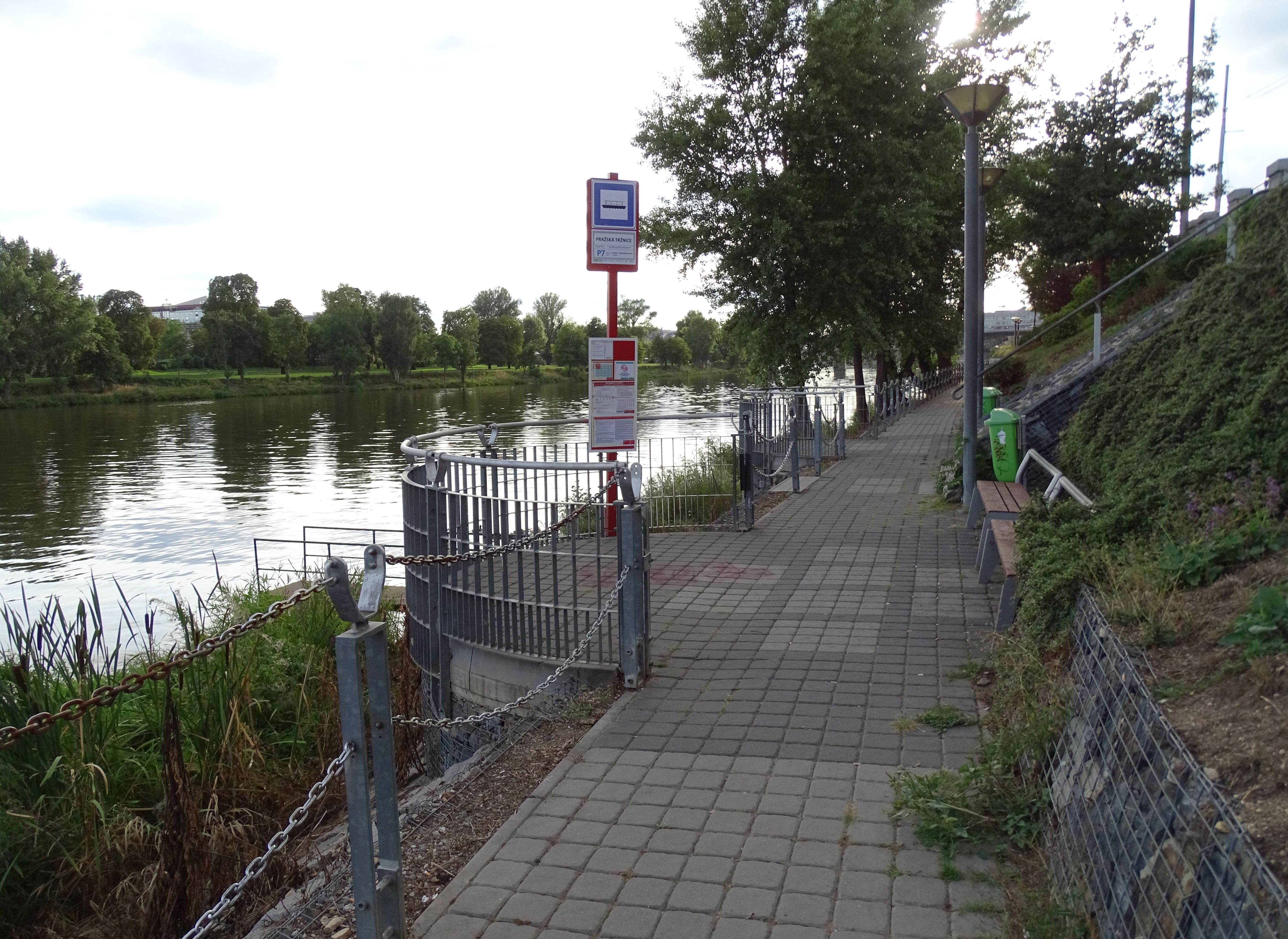 Prague-Holešovice, Czech Republic. "Pražská tržnice" stop of P7 ferry.